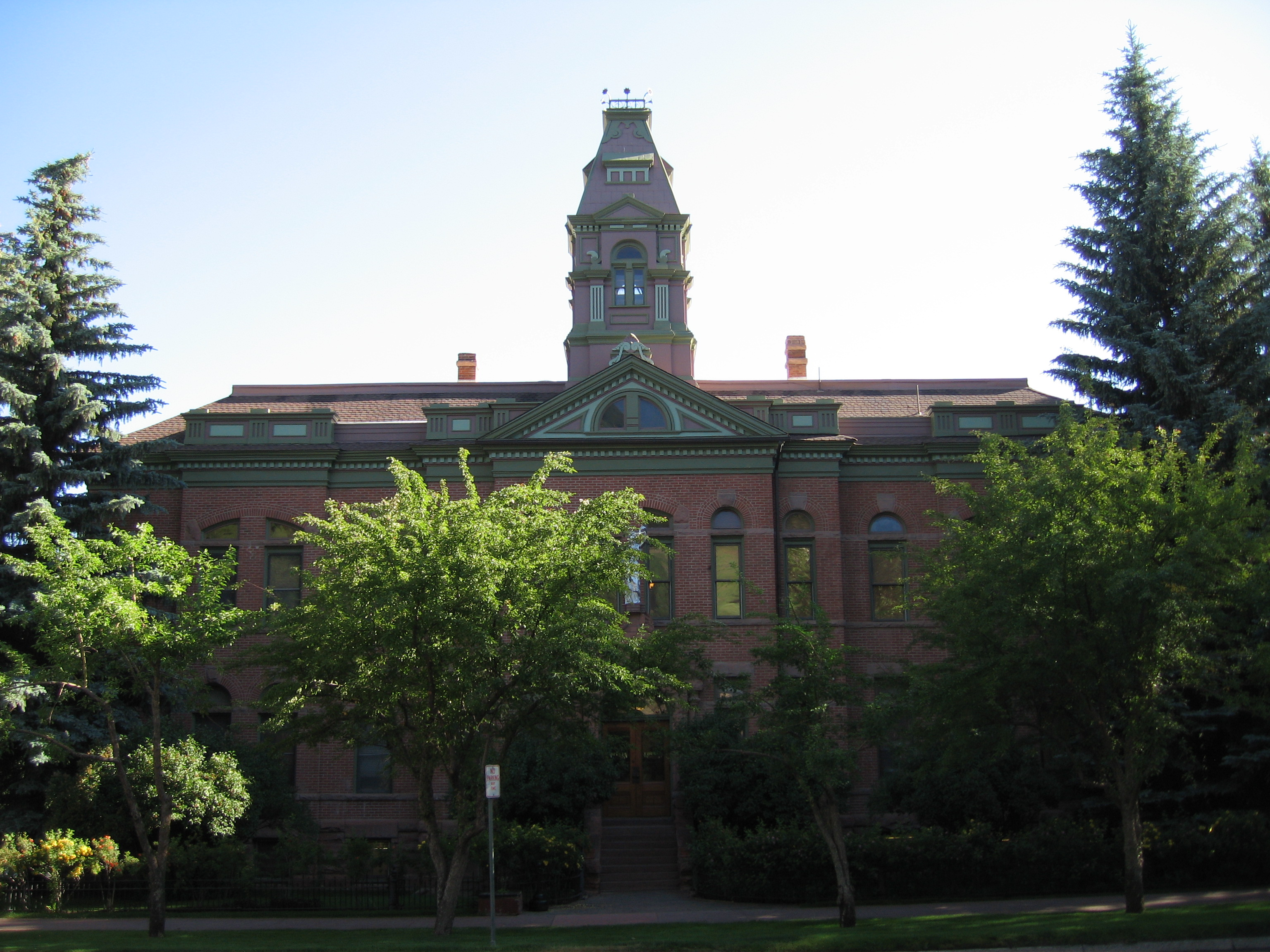 Pitkin County Courthouse, Aspen, CO. Ted Bundy escaped from custody by jumping from the second window from left, second story, June 7, 1977.